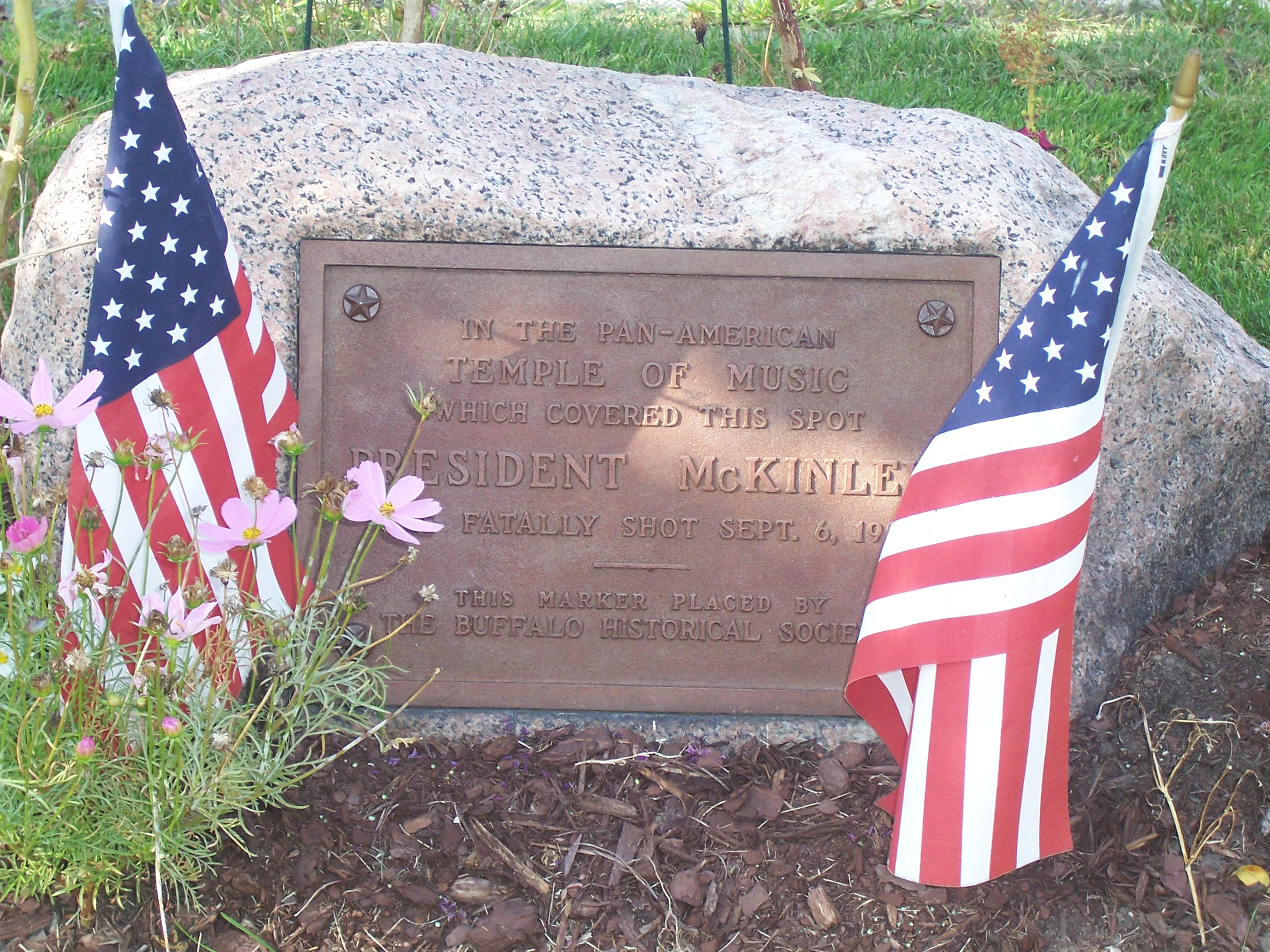 Memorial stone laid at the site of the fatal shooting of President William McKinley, Buffalo, NY, Sept. 6, 1901